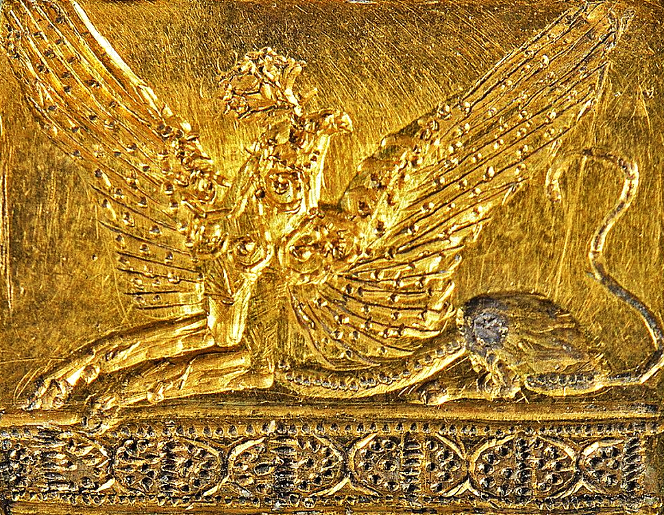 Griffin from a golden signet bead, unearthed in a tomb in Pylos, Messinia, by american archaeologist Carl Blegen in 1963 (NAMA 7986 - National Archaeological Museum of Athens, Hellenic Ministry of Culture)